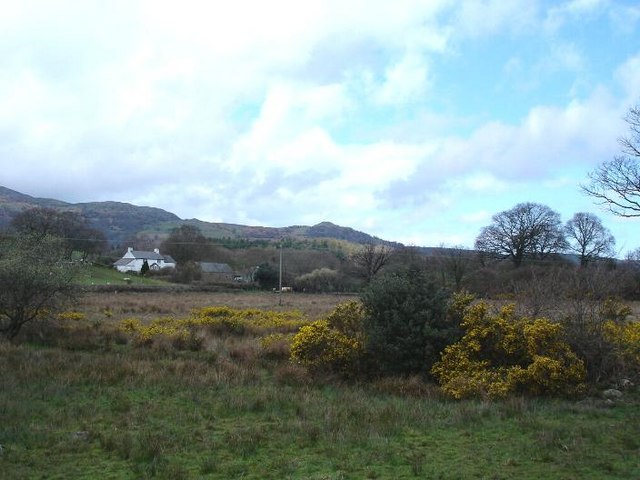 Remote house Cottage near to Tyn y groes in the Conwy valley